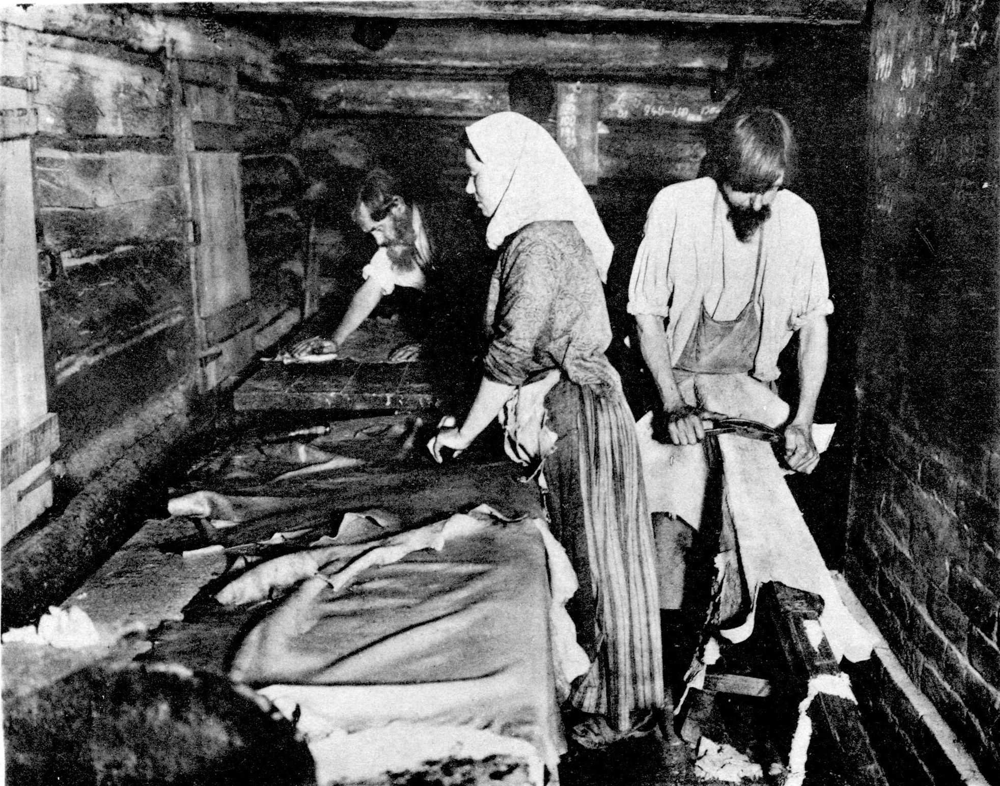 Handicraft Industry and Trades of Nizhegorodskaja gubernija. Katunki. XIX c.